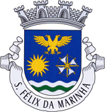 Coat of Arms of São Félix da Marinha a village from Portugal.